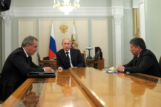 Russian President Vladimir Putin holds a working meeting on the Russian space industry, 31 August 2012. Left is Dmitry Rogozin, deputy prime minister, Putin centre, Vladimir Popovkin, director general of Roscosmos is right.